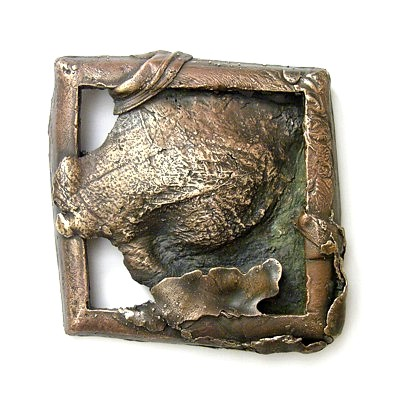 Enikő Szöllőssy: Meditation No.3